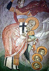 St. Babylas of Antioch